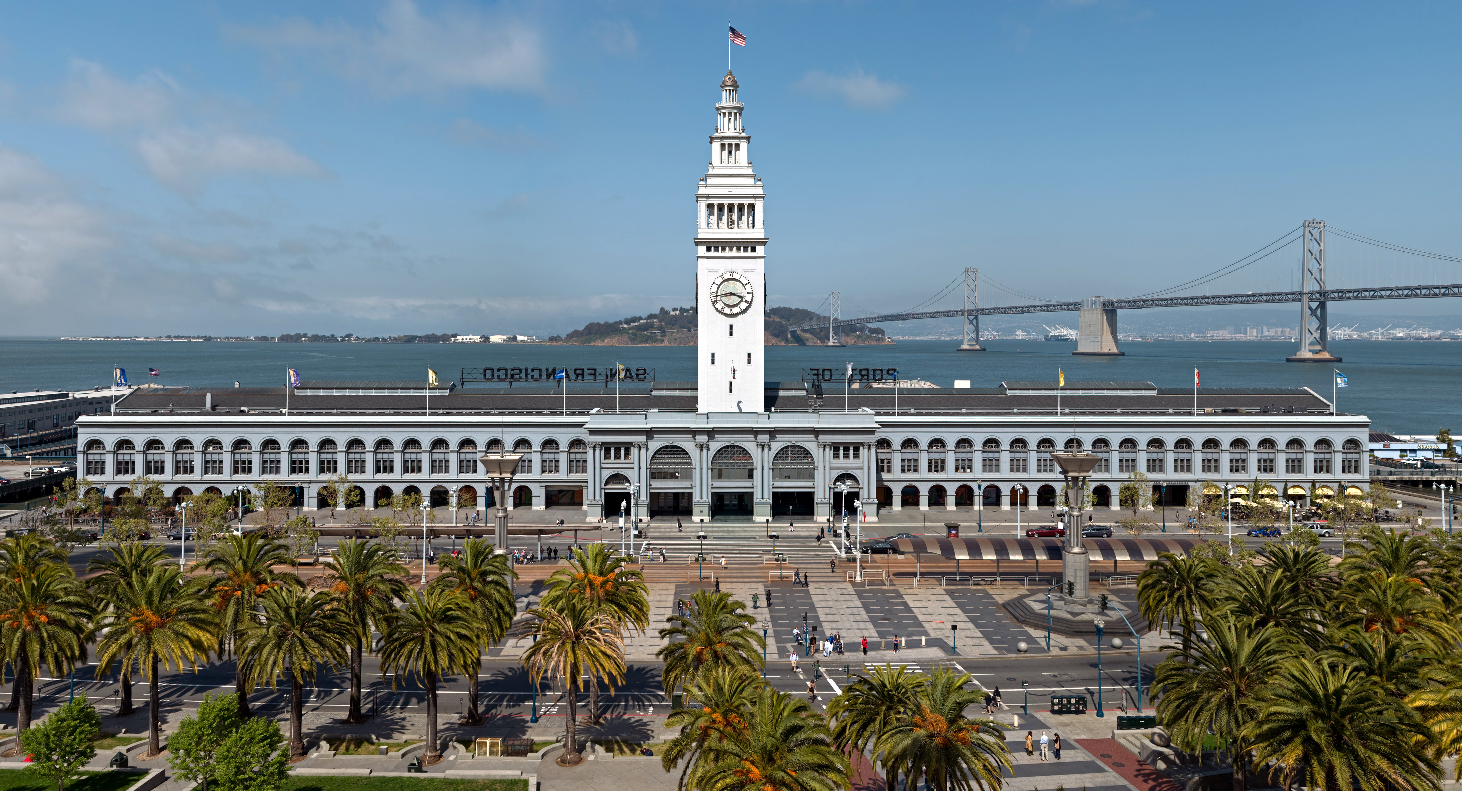 The Ferry Building is a terminal for ferries on the San Francisco Bay and an upscale shopping center located on The Embarcadero in San Francisco, California. The Bay Bridge can be seen in the background.